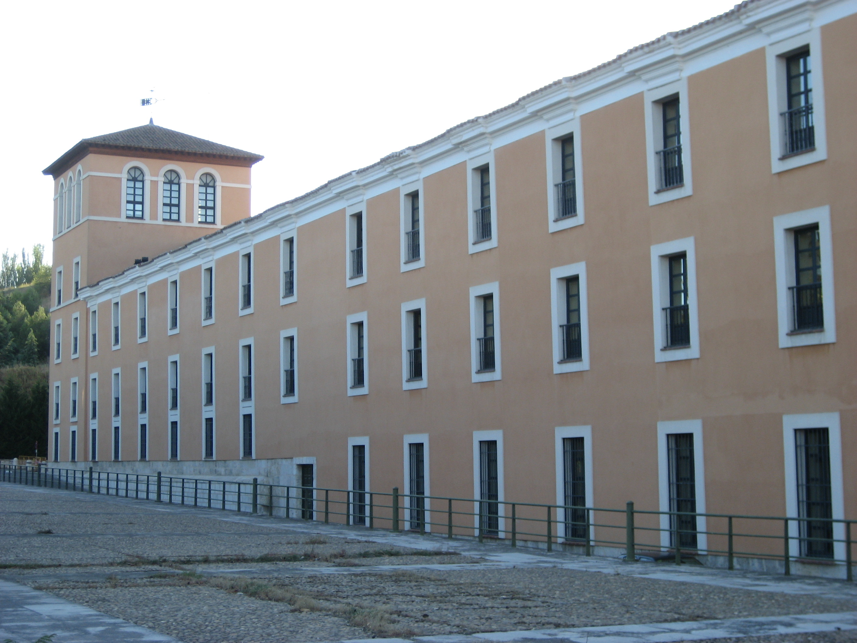 Left side of back view of Nuestra Señora de Prado Monastery, Valladolid, ES